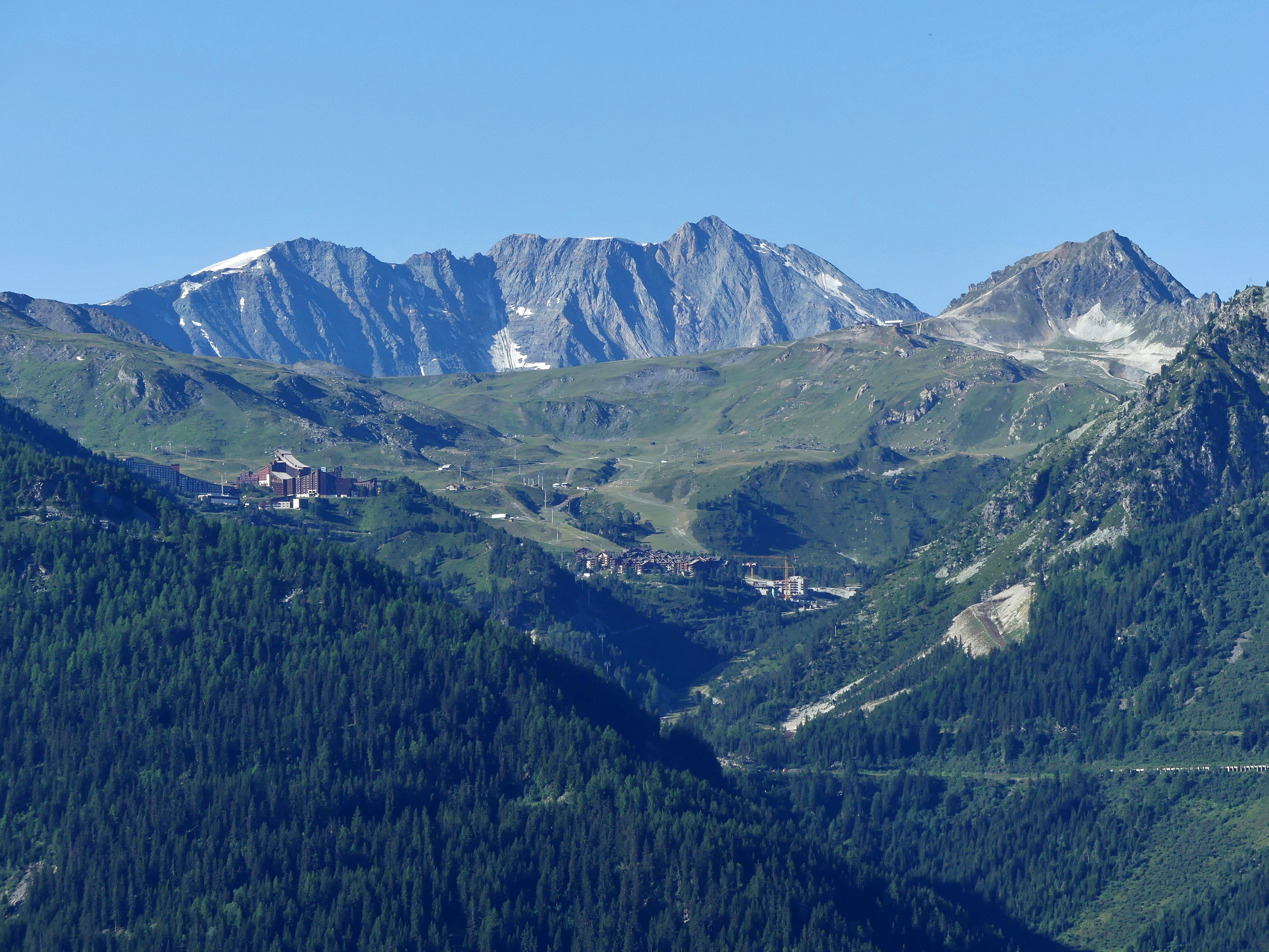 Sight, from La Rosière resort in a summer morning, of Arc 2000 village part of Les Arcs resort, in Savoie, France.